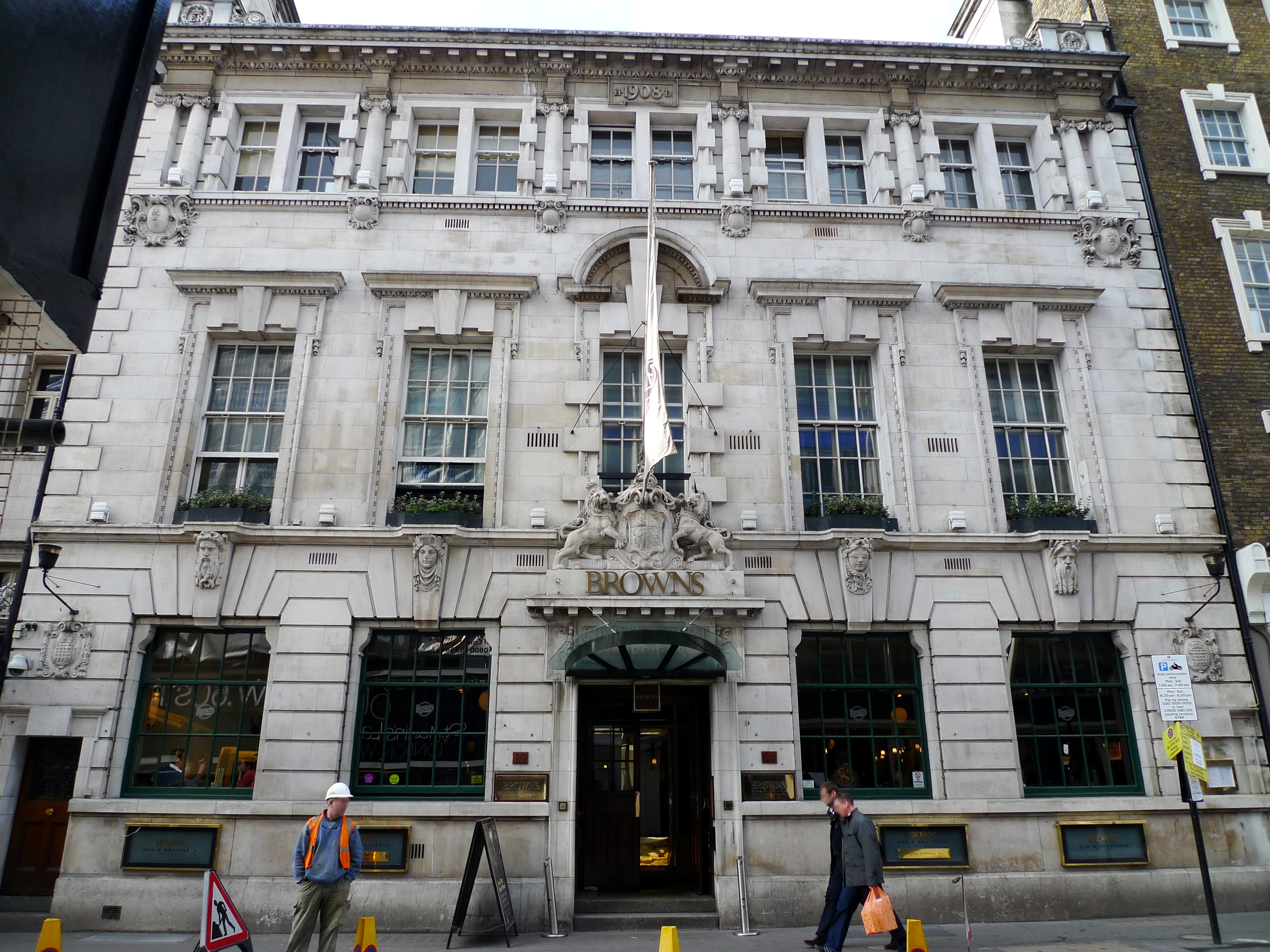 A restaurant, really, with a bar. Address: 82-84 St Martins Lane. Owner: Mitchells and Butlers [Browns] (website). Links: Beer in the Evening Qype